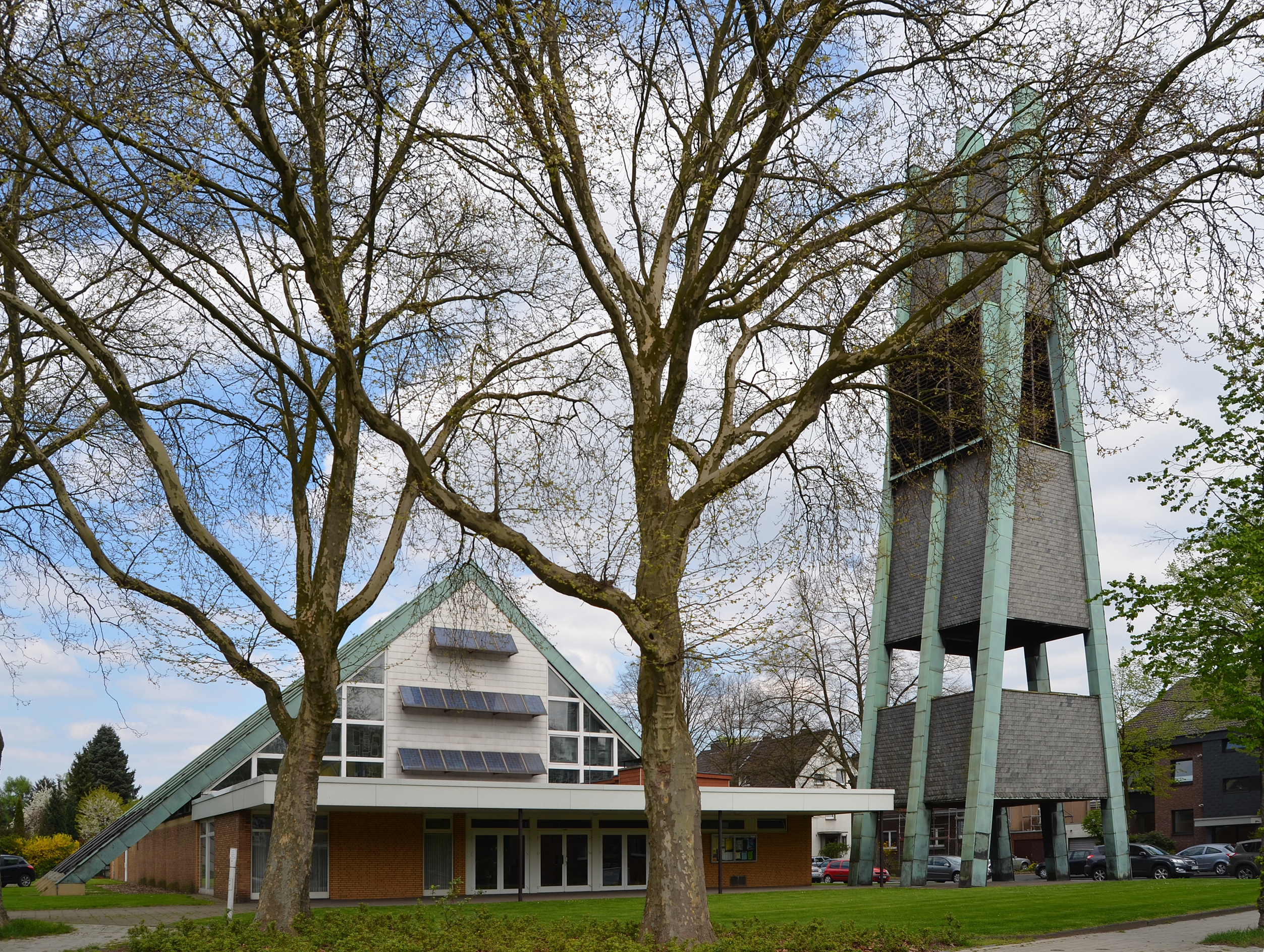 Duisburg (North Rhine-Westphalia, Germany) – borough Rheinhausen, district Friemersheim – Protestant Holy Cross Church This photograph was taken with a Nikon D7000